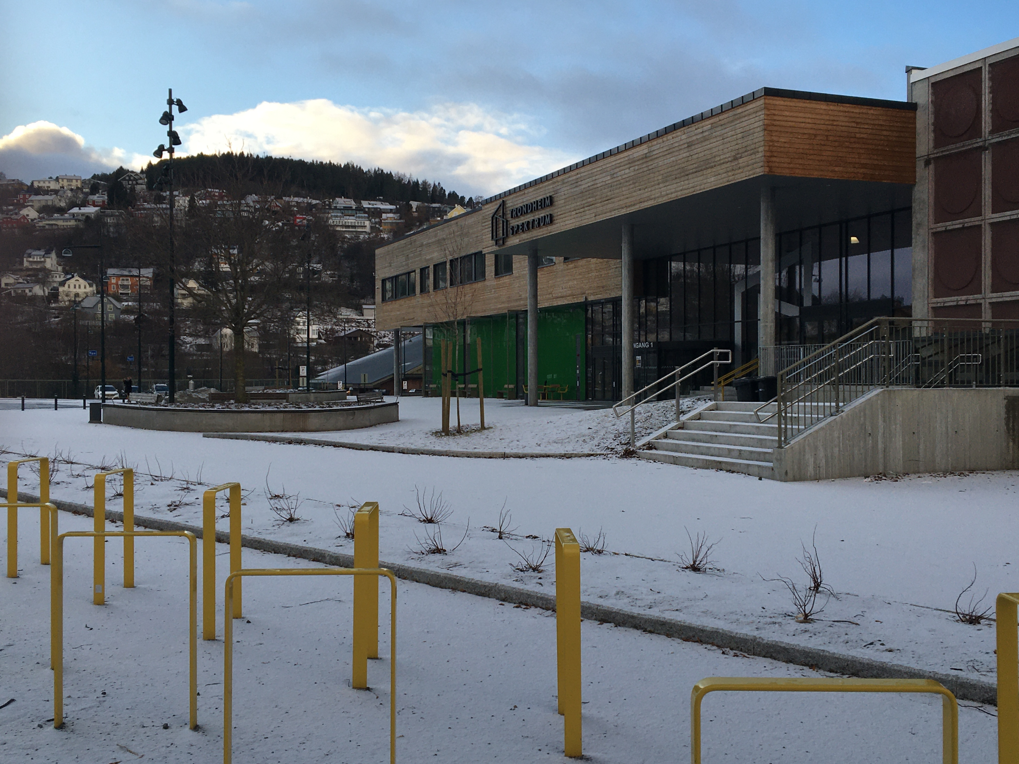 Trondheim Spektrum Main entrance at Øya